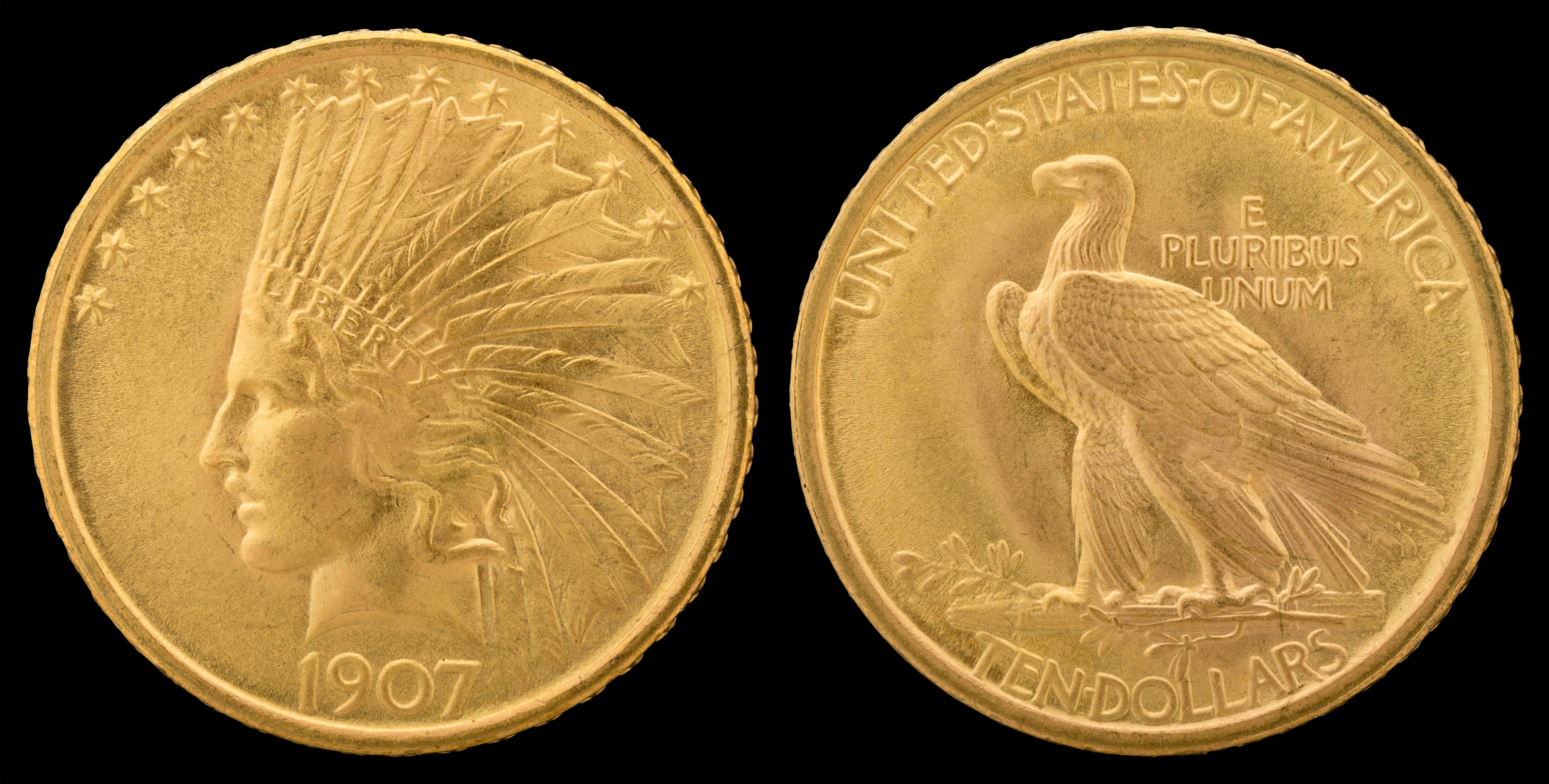 1907 G$10 Indian Head (no motto)Gold (fineness 0.9000), 27mm, 16.718g, designed by Augustus Saint-GaudensJN2015-6758-59